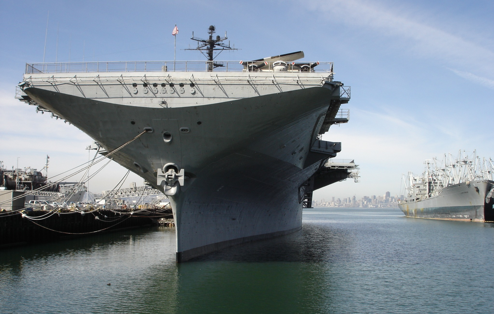 USS Hornet docked in Alameda. Uploaded by author User:PeterThoeny.